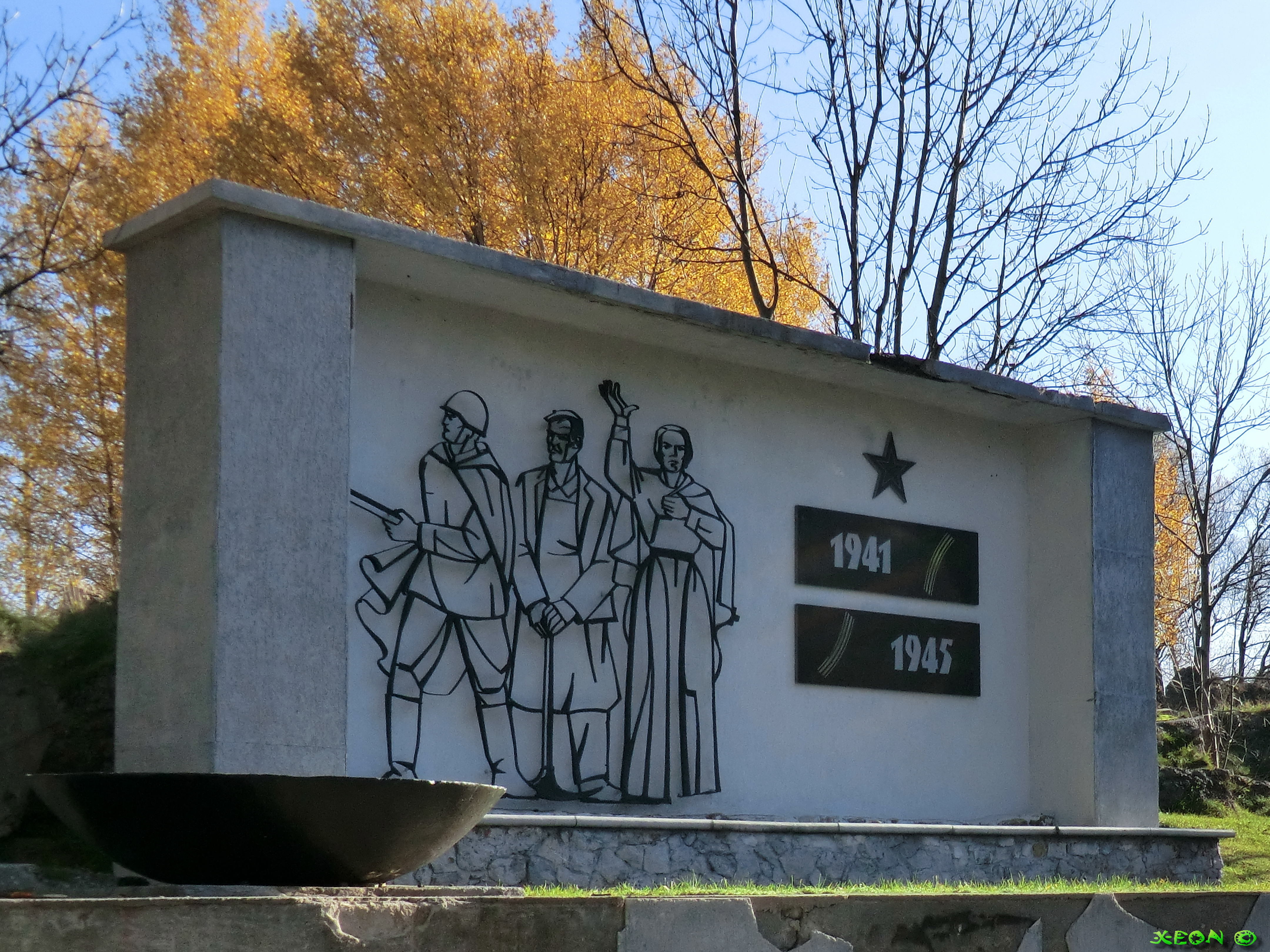 The Memorial Wall